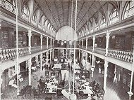 JN Petit library, built 1898